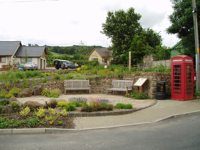 Lanton. A small village in Teviotdale. The villagers have created a community garden which is seen in my photo located in the centre of the village.